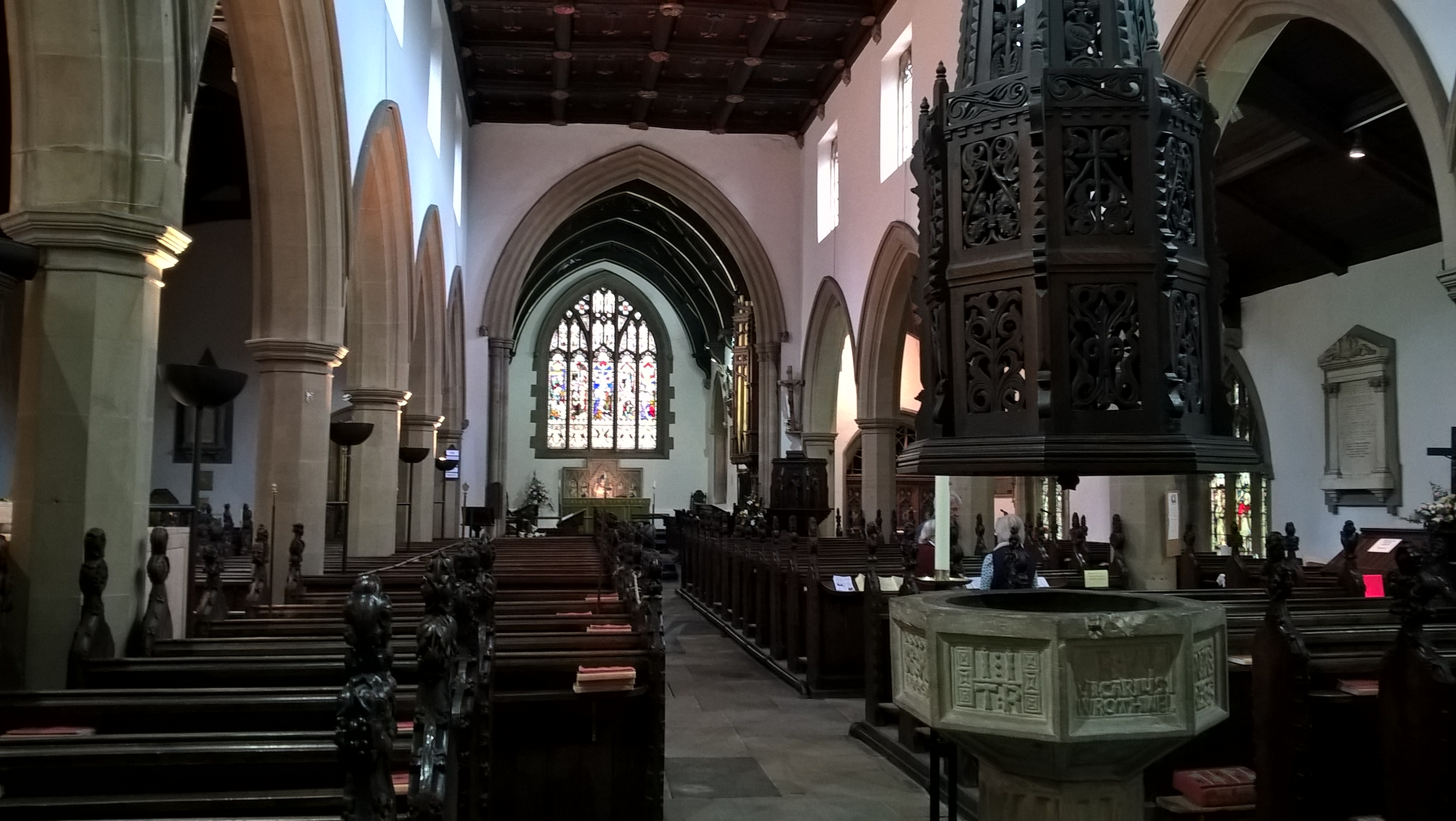 Holy Trinity Church, Rothwell. Interior with font on the right looking down the nave to the chancel.